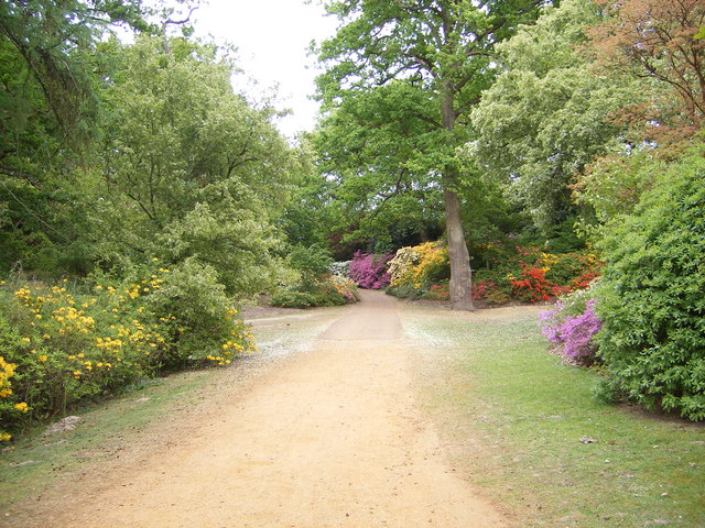 Valley Gardens, Virginia Water